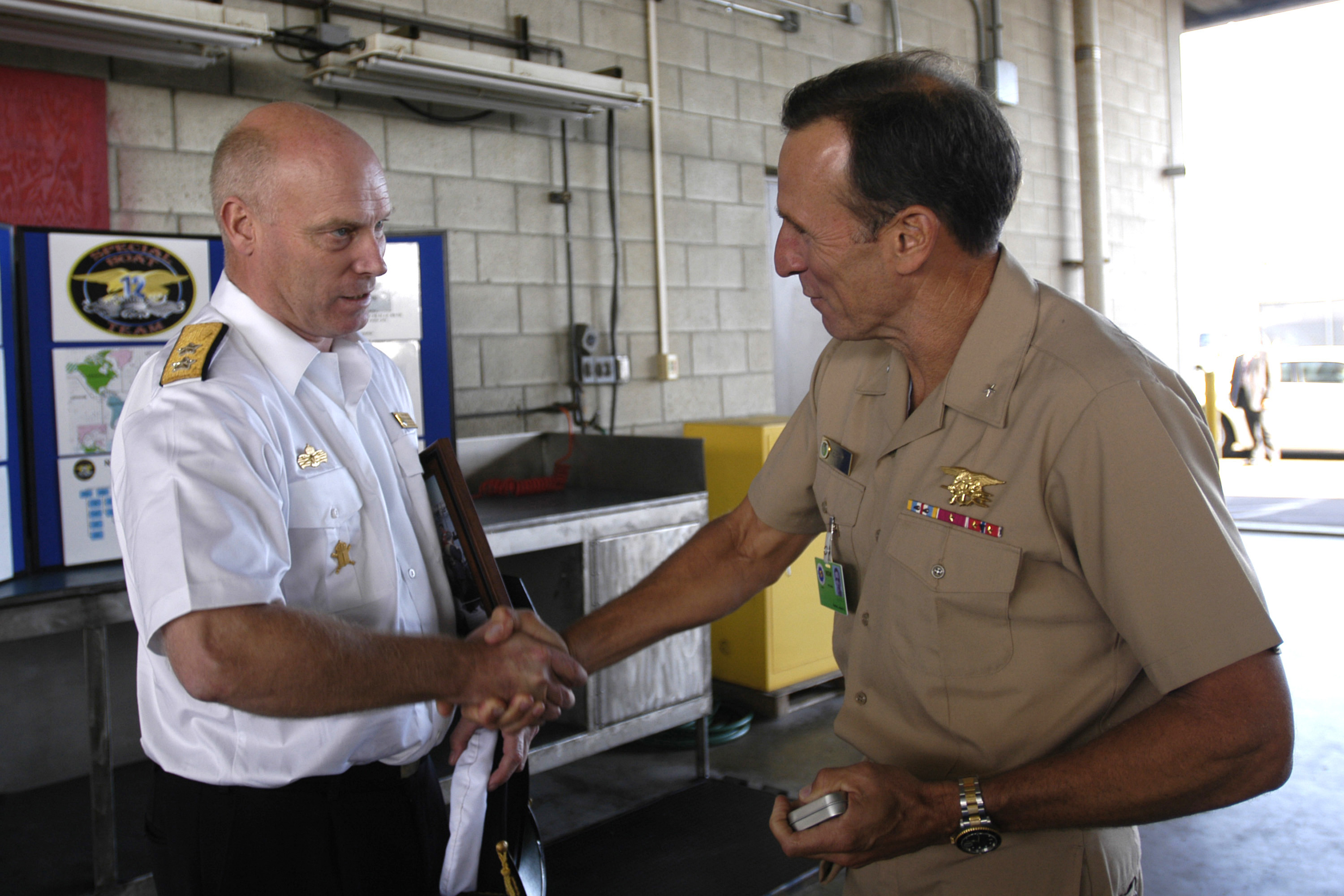 Swedish Navy Chief of Staff Rear Adm. Anders Grenstad, left, presents U.S. Navy Rear Adm. Joseph Kernan, commander, Naval Special Warfare, a necktie clip from Sweden as special thanks for his visit in San Diego, Calif., Oct. 23, 2006. Grenstad is an official guest of Chief of Naval Operations Adm. Mike Mullen, not shown, and is visiting the United States to learn more about naval operations. (U.S. Navy photo by Mass Communication Specialist Seaman Apprentice Jonathan Husman)(Released).